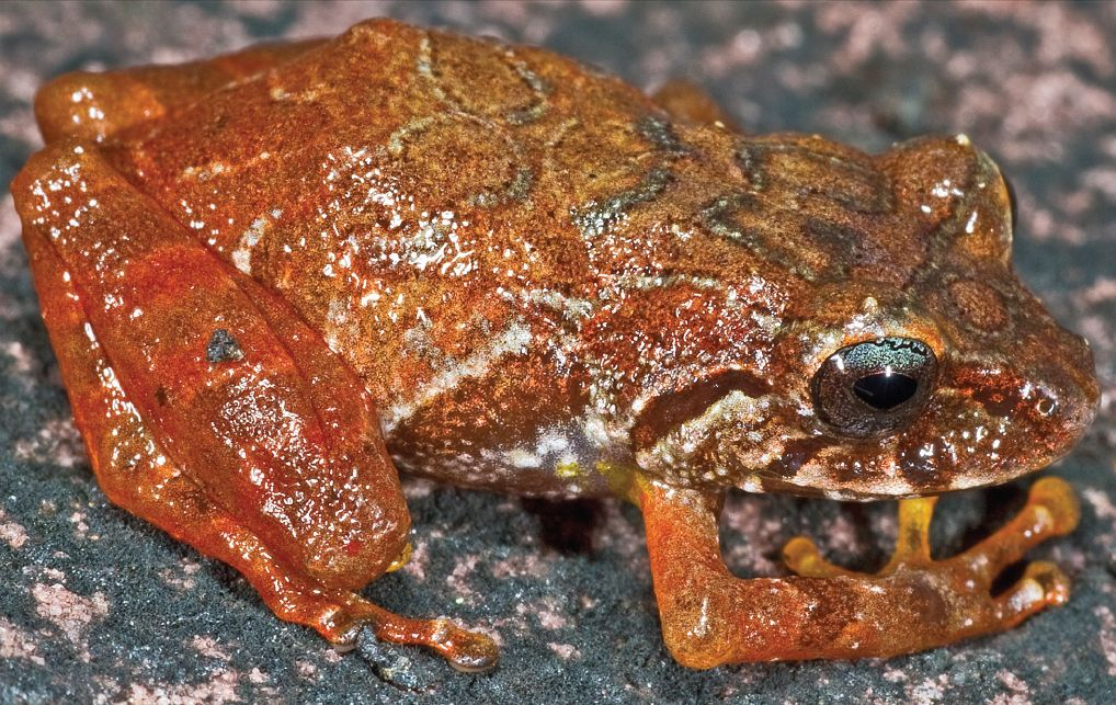 Pristimantis jamescameroni juvenile specimen (18.3 mm SVL) from Aprada-tepui, Venezuela.